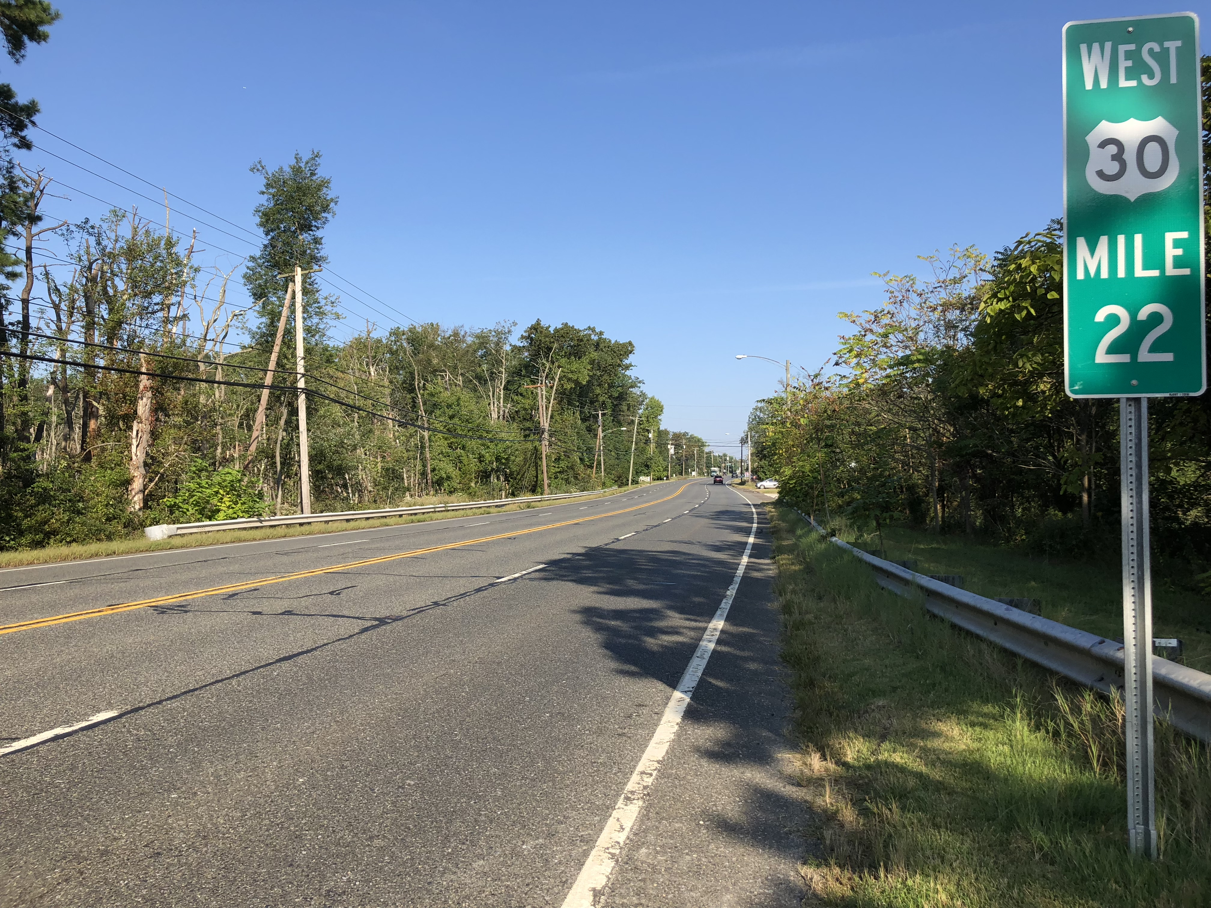 View west along U.S. Route 30 (White Horse Pike) between First Avenue and Cleveland Avenue in Chesilhurst, Camden County, New Jersey